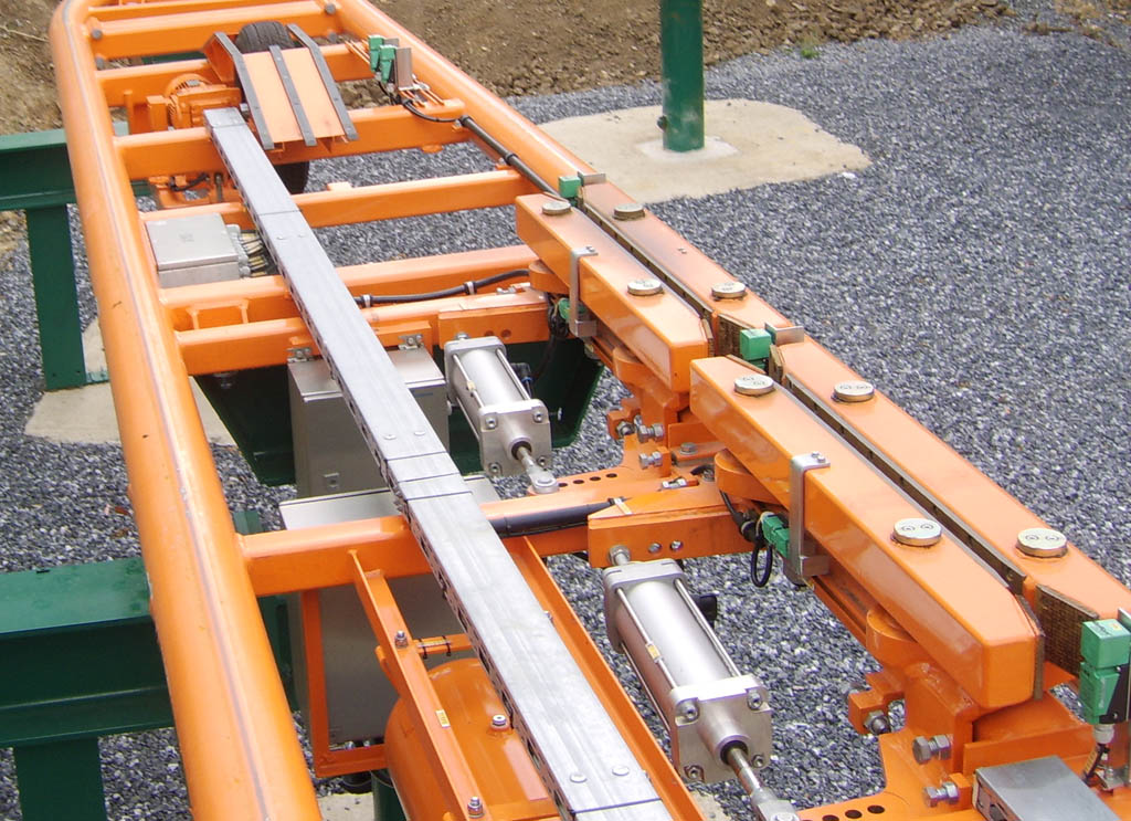 Friction brakes on a roller coaster. Picture taken on Speed at Oakwood Amusement Park Taken with permission from Oakwood's public relations department